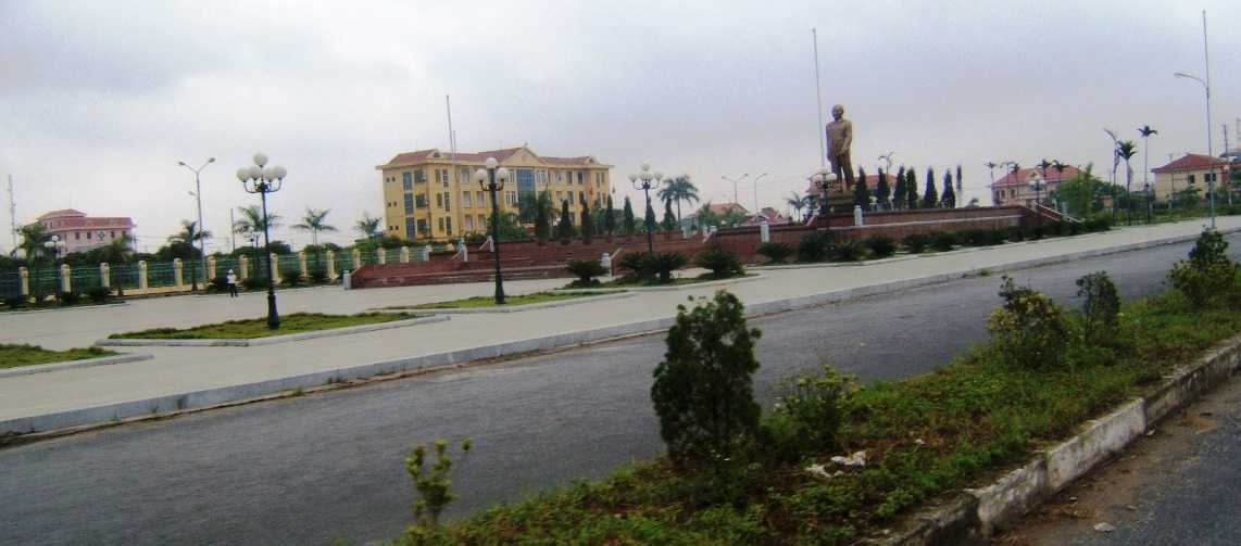 Truong Chinh Memorial Park @ Nam Dinh province, Vietnam, 2005